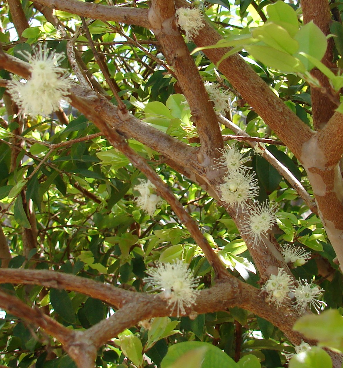 Jabuticaba flor flower